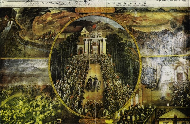 Reproduction of a commemorative poster (3 by 4 metres) pertaining to the conquest of Tehran by the Gilanian and Bakhtiari forces in July 1909. The two men on horse are Sardar Asad and Sepahsālār (Mohammad Vali Khan, Sepahsālār-e A'zam-e Tankāboni), Minister of Defence in the first Cabinet following dethroning of Mohammad Ali Shah Qajar in 1909, and subsequently Prime Minister of Iran from 6 October 1909 until July 1910.